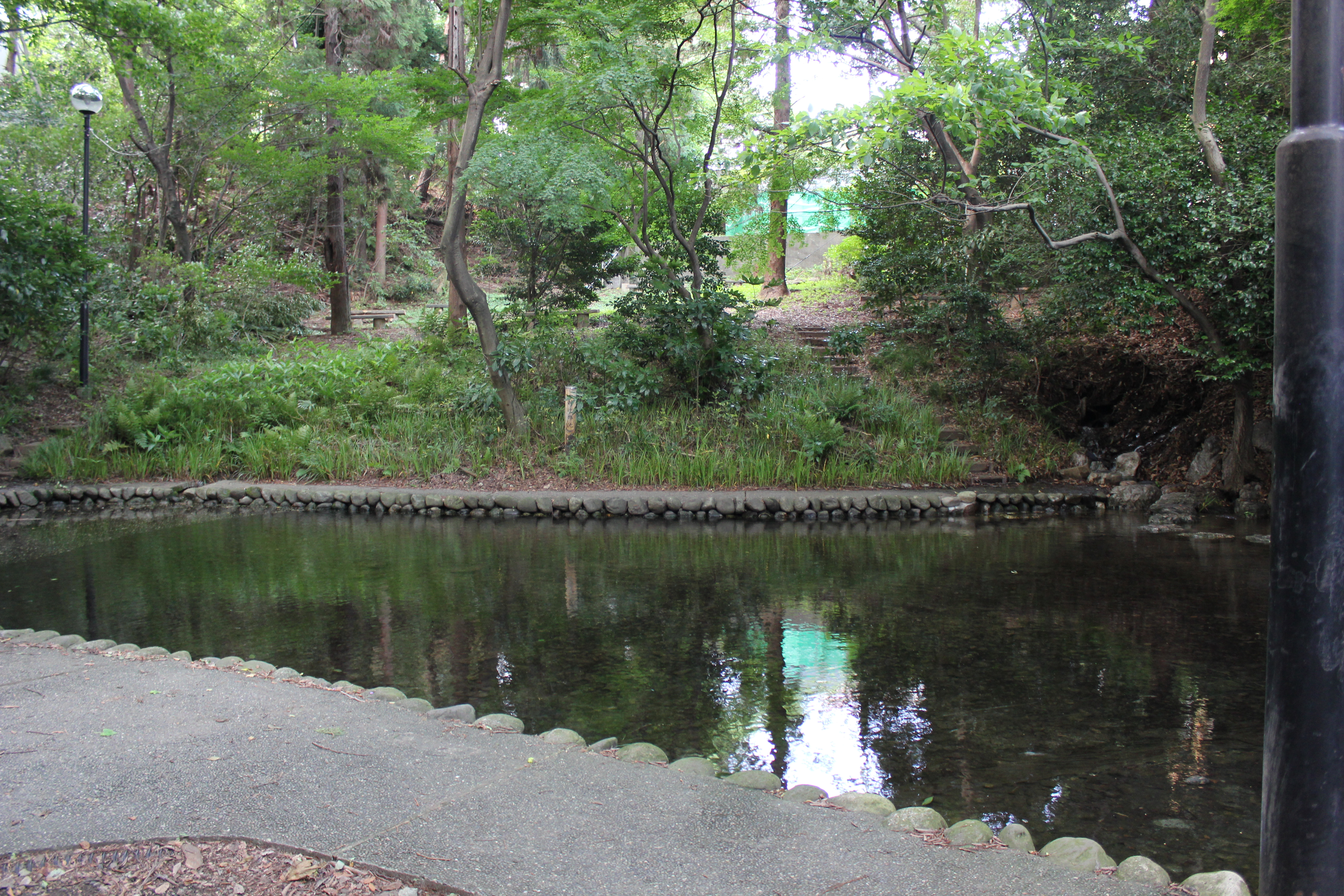 Shinjiro PondTokyo Keizai University Japan English Shinjiro Pond Tokyo Keizai University Japan 日本語 新次郎池 東京経済大学